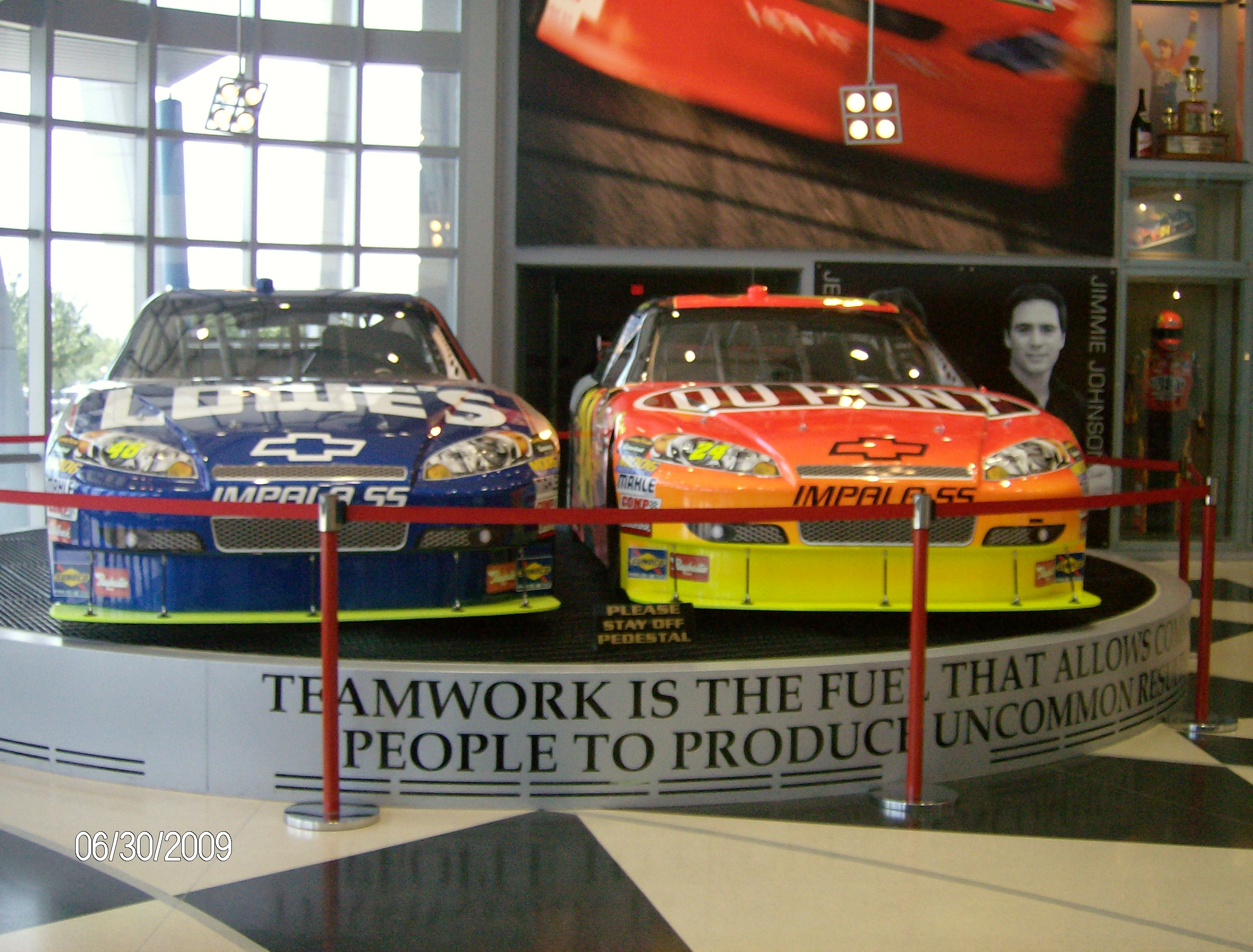 A picture taken of Jimmie Johnson and Jeff Gordon's 2009 race cars in Hendrick Motorsports